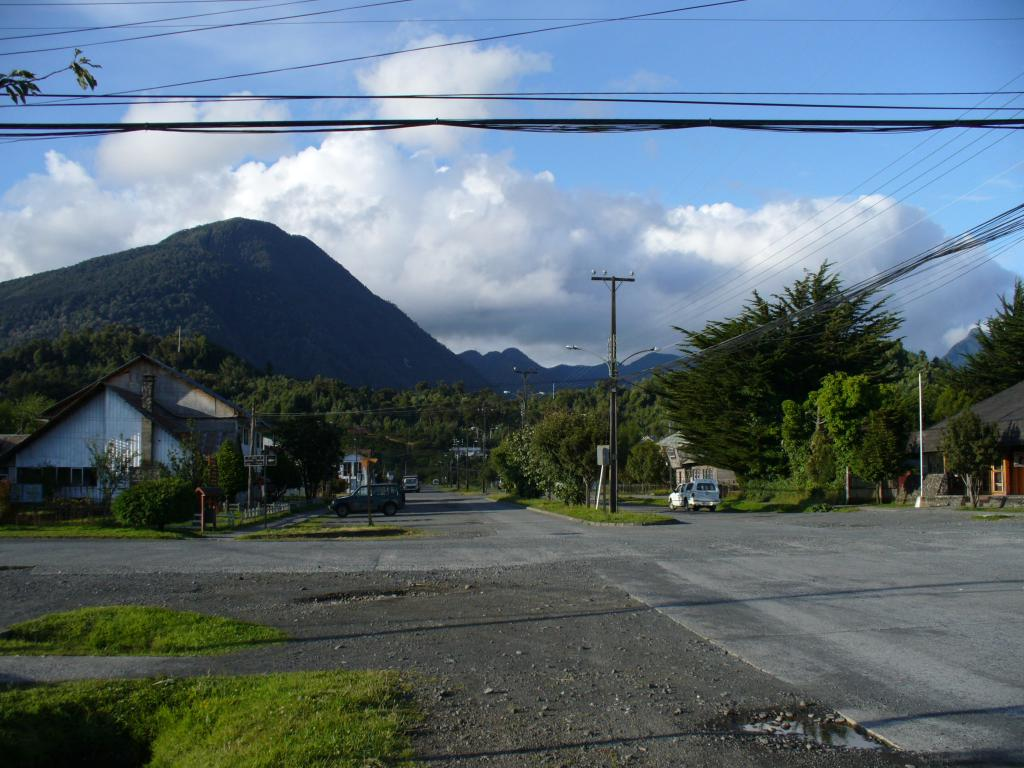 View Chaitén, in Southern Chile, Patagonia